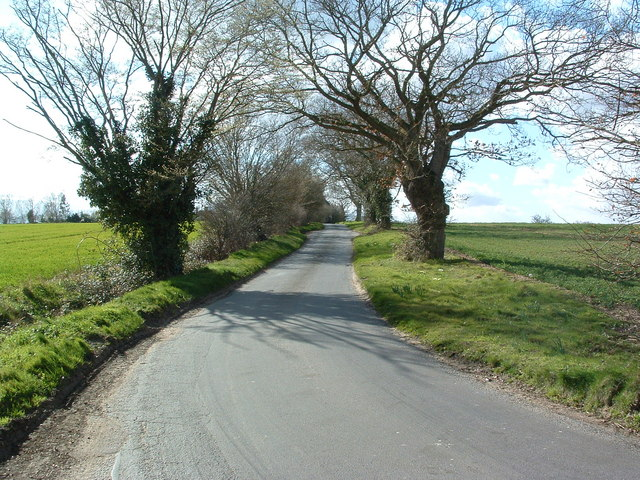 Country Road Looking west along a country road that links the A140 to Collingsford Bridge just north of Wetheringsett Suffolk.